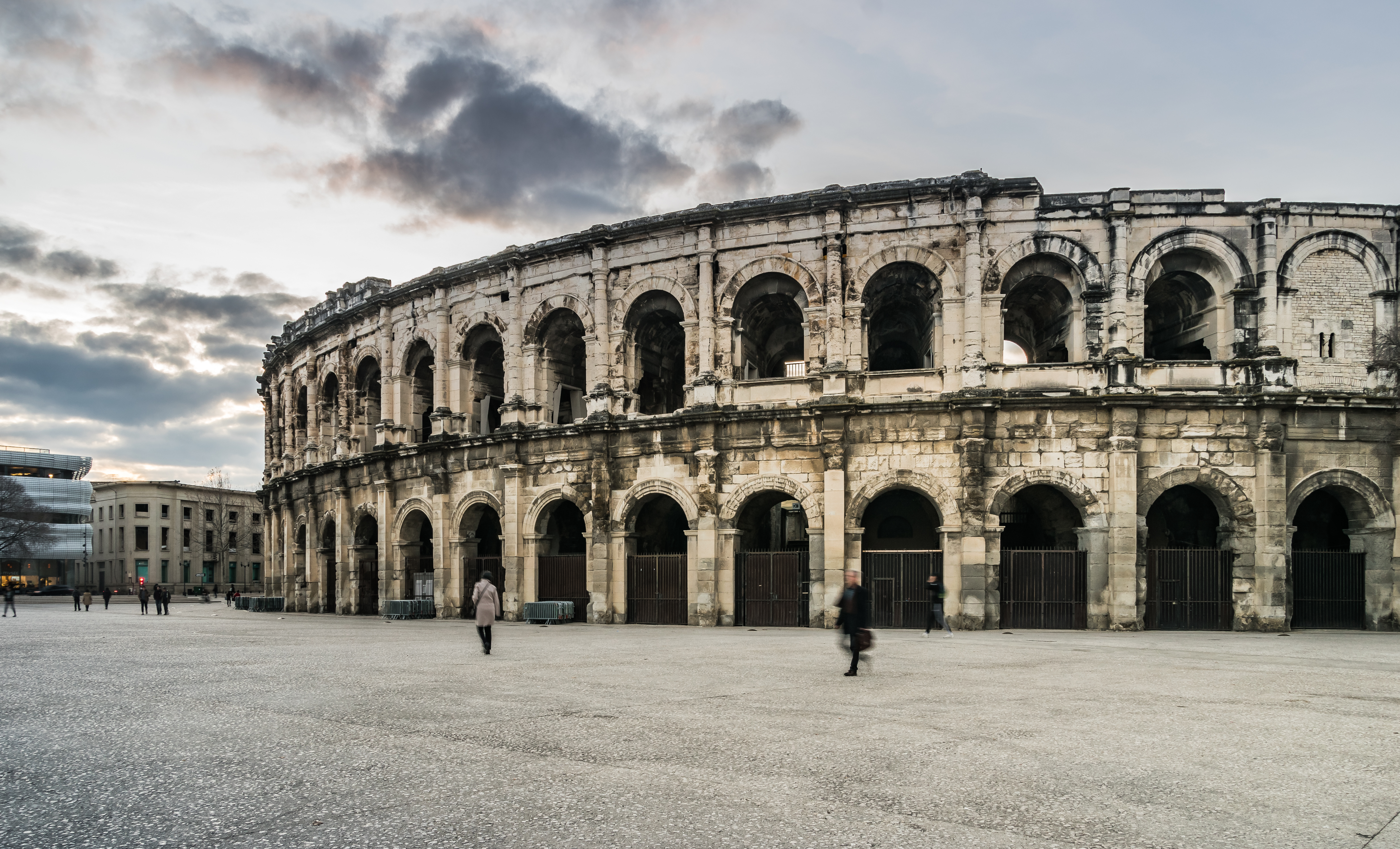 Arènes de Nîmes, Gard, France .